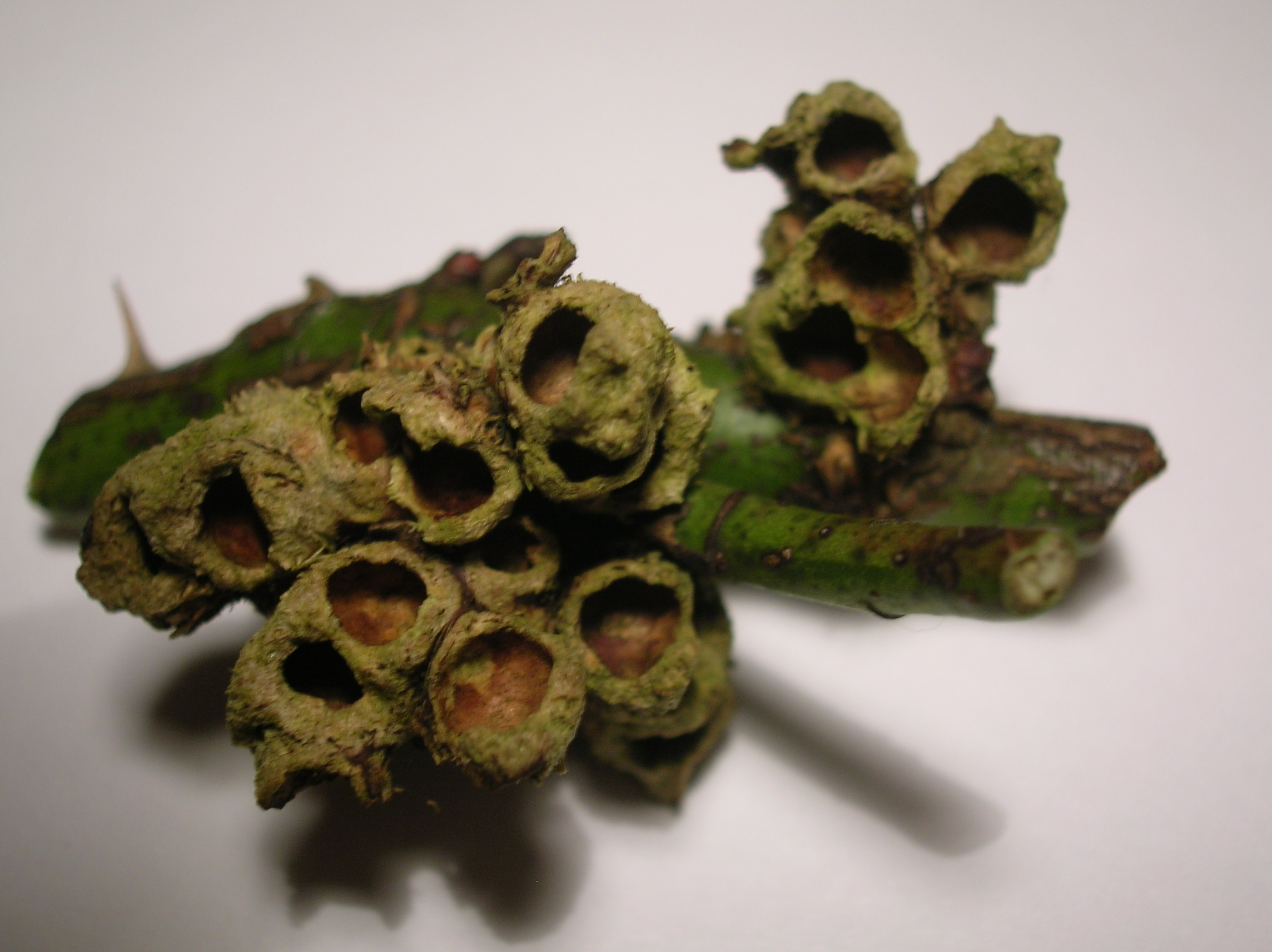 Robin's pincushion gall on Dog Rose